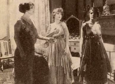 Still from the American film The Rescue (1917) with Gretchen Lederer, Dorothy Phillips, and Molly Malone, on page 26 of the July 28, 1917 Exhibitors Herald.